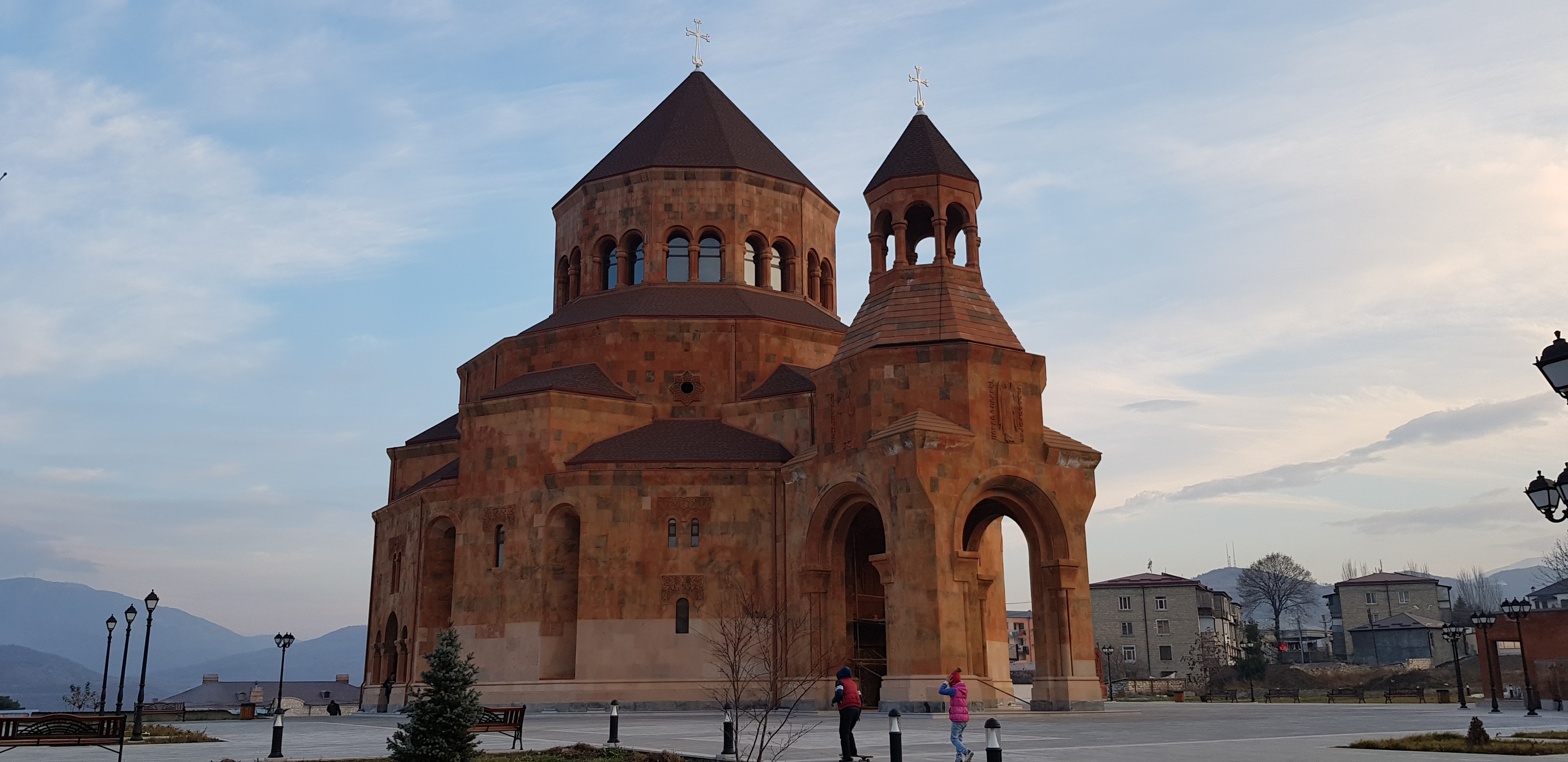 Armenian Apostolic Church in the Republic of Artsakh